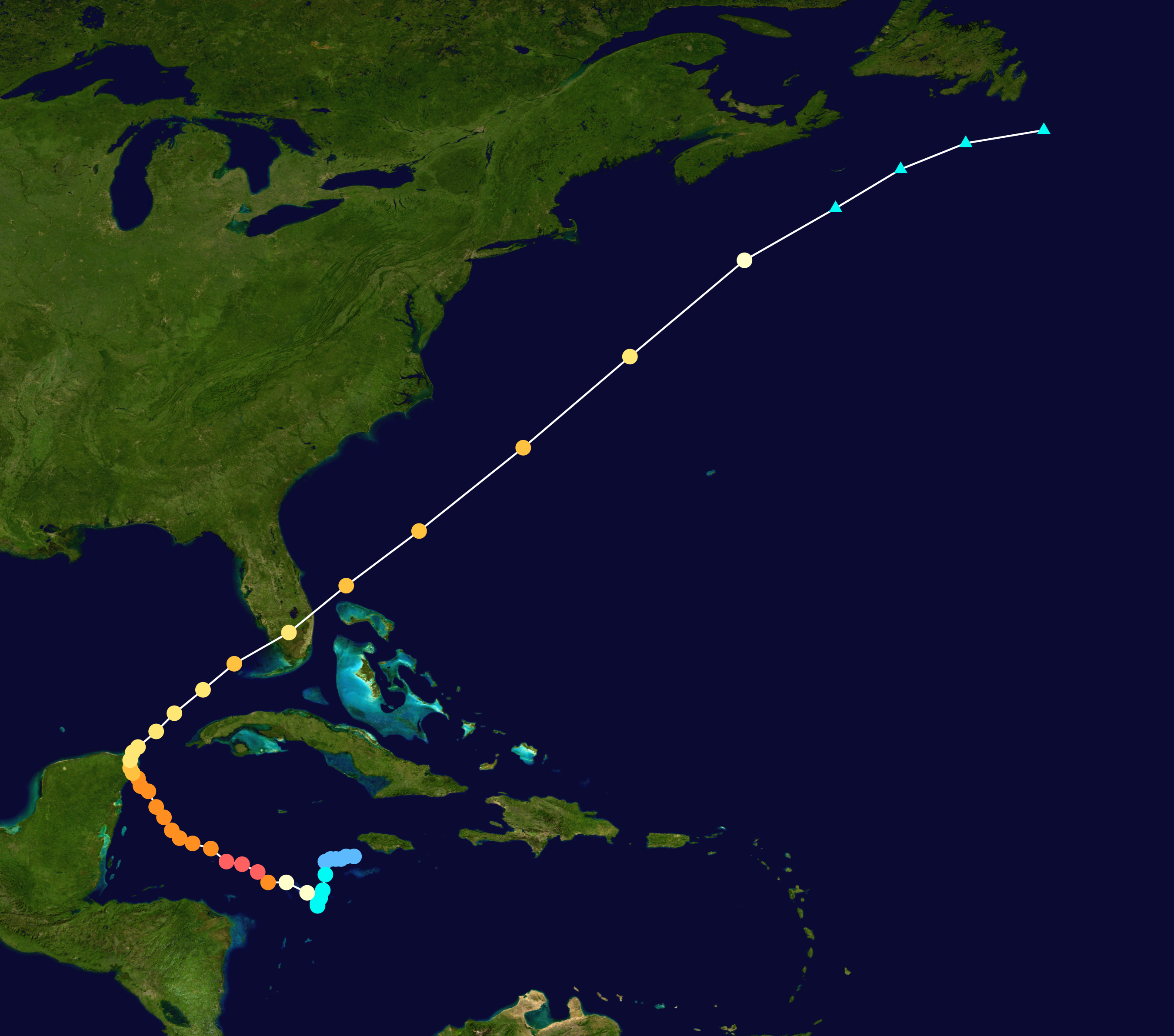 Track map of Hurricane Wilma of the 2005 Atlantic hurricane season. The points show the location of the storm at 6-hour intervals. The colour represents the storm's maximum sustained wind speeds as classified in the Saffir–Simpson scale (see below), and the shape of the data points represent the nature of the storm, according to the legend below. Saffir–Simpson scale Tropical depression≤38 mph≤62 km/h Category 3111–129 mph178–208 km/h Tropical storm39–73 mph63–118 km/h Category 4130–156 mph209–251 km/h Category 174–95 mph119–153 km/h Category 5≥157 mph≥252 km/h Category 296–110 mph154–177 km/h Unknown Storm type Tropical cyclone Subtropical cyclone Extratropical cyclone / Remnant low / Tropical disturbance / Monsoon depression